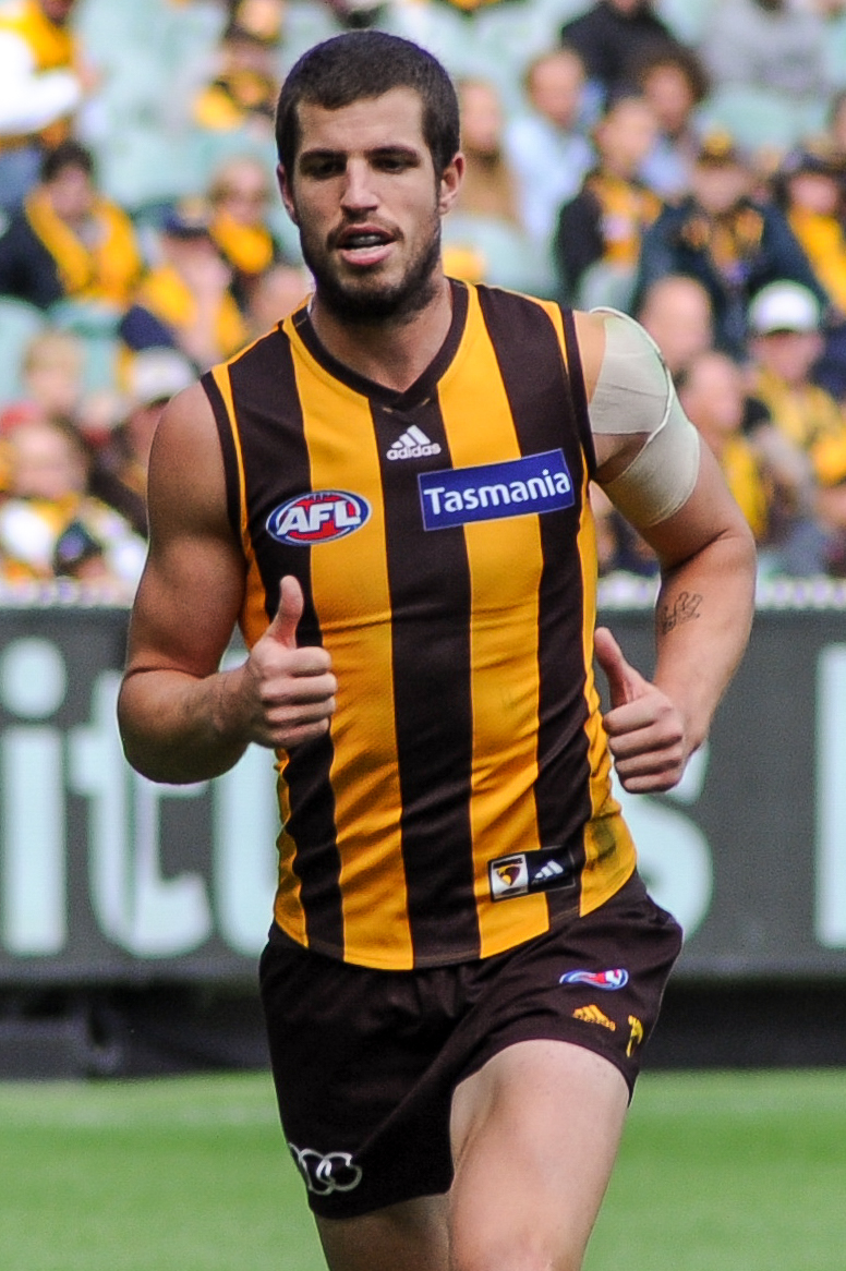 Ben Stratton during the AFL round two match between Hawthorn and Adelaide on 1 April 2017 at the Melbourne Cricket Ground in Melbourne, Victoria.